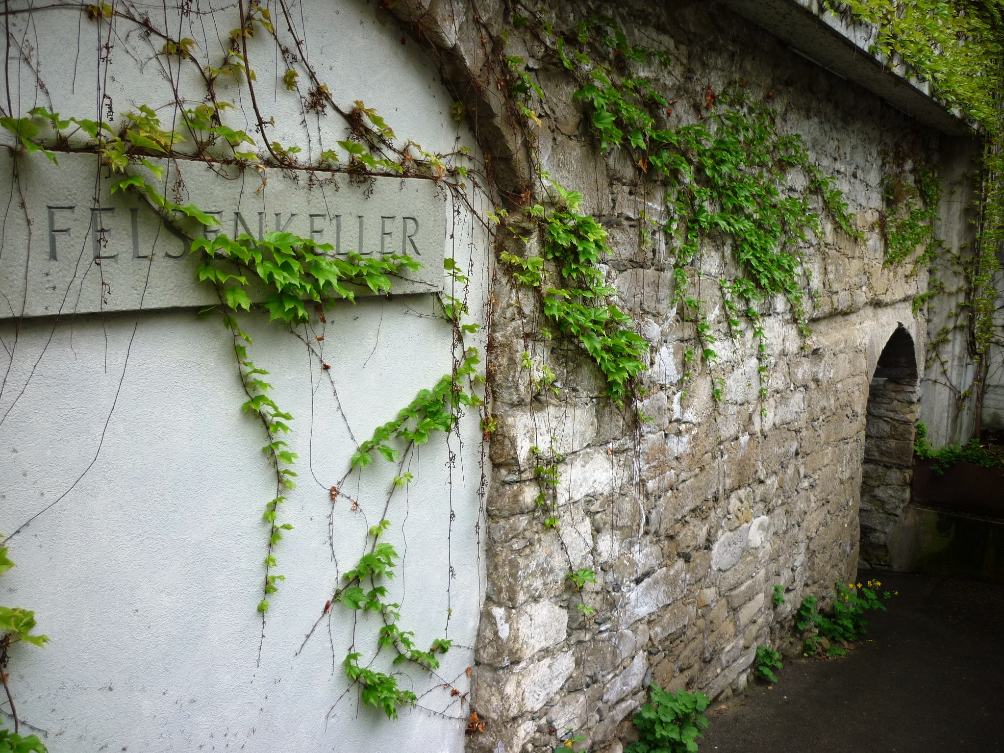 Greuterhof, Islikon TG, Switzerland